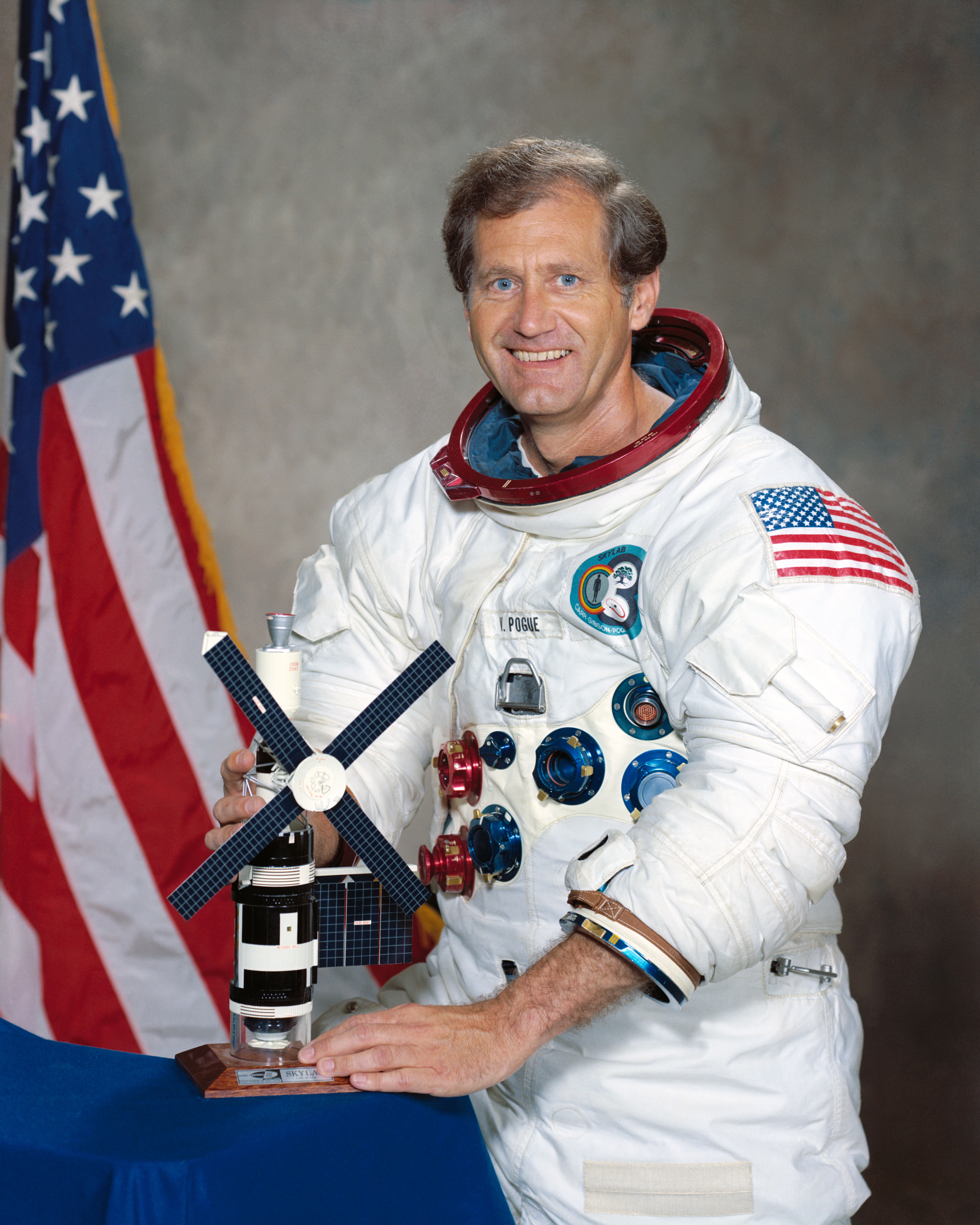 William Pogue portrait